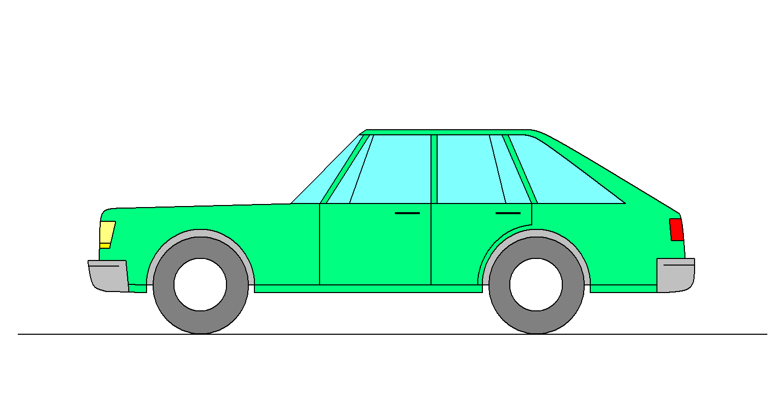 Cartype Large Hatchback